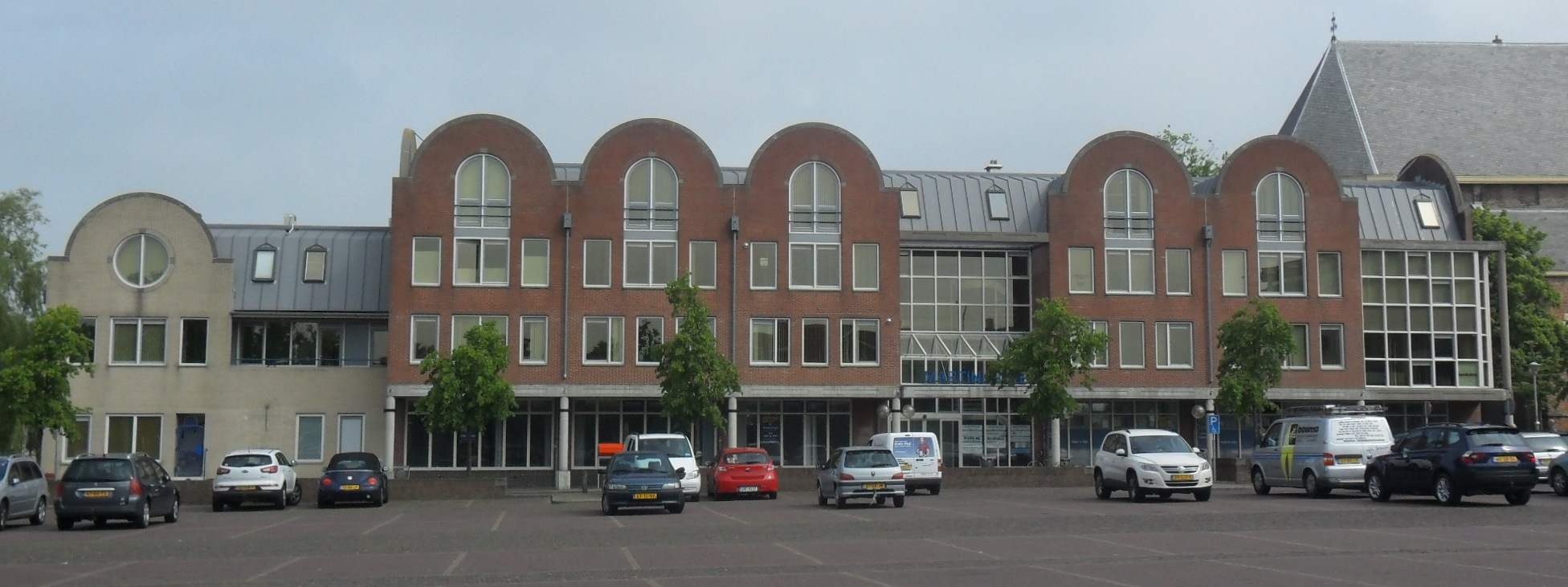 Martinistate Sneek